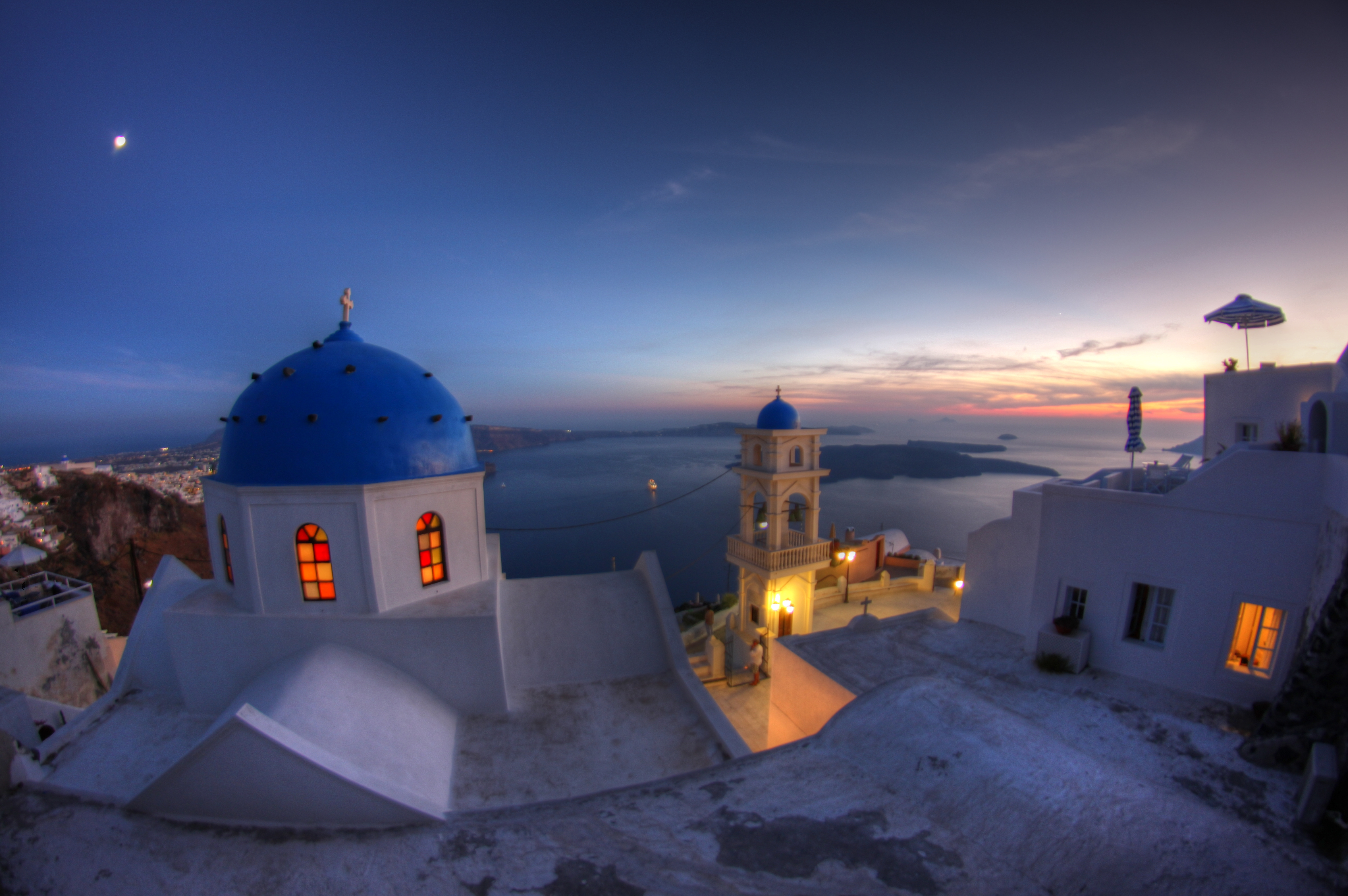 The church of the Resurrection in Imerovigli, Santorini...